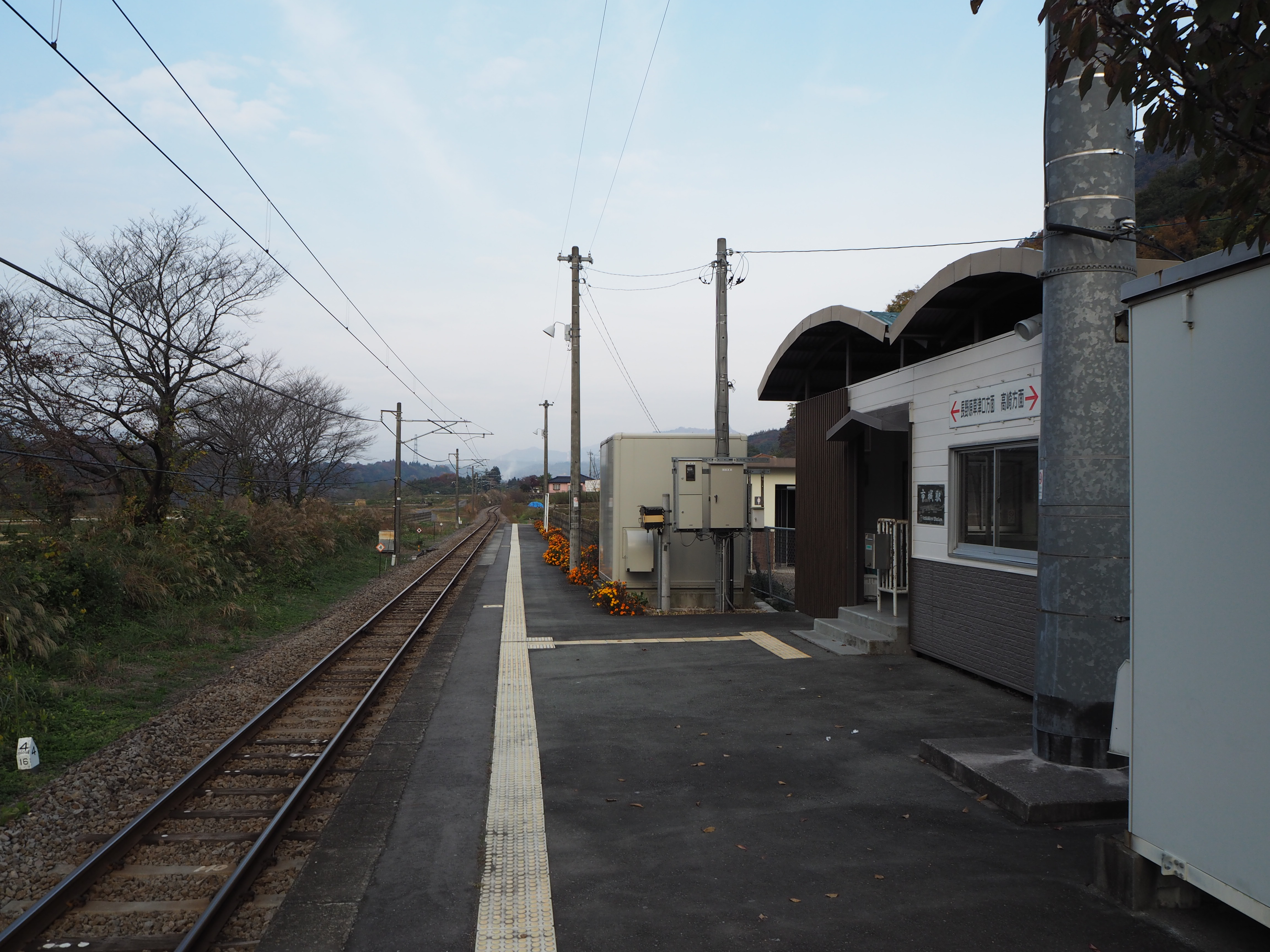 Platform of Ichishiro Station